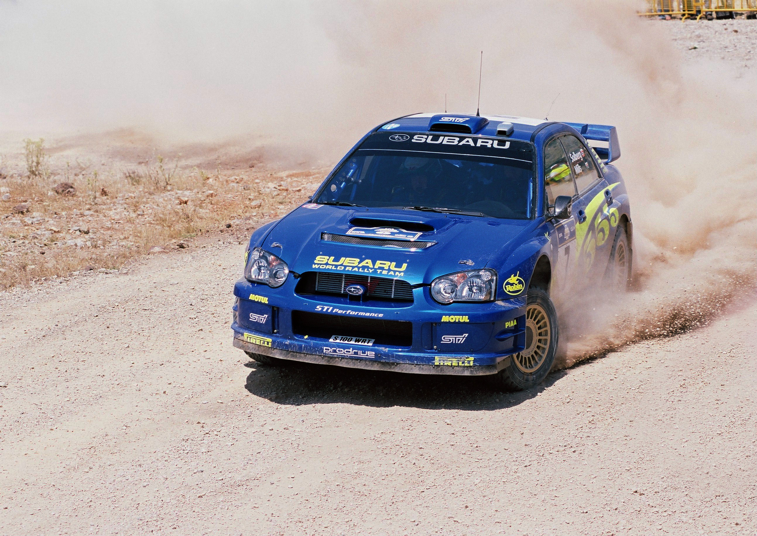 7 P. Solberg and P. Mills in 2003 Acropolis Rally (S.S. ?)